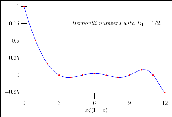 The Bernoulli numbers by Riemann zeta function (low res).